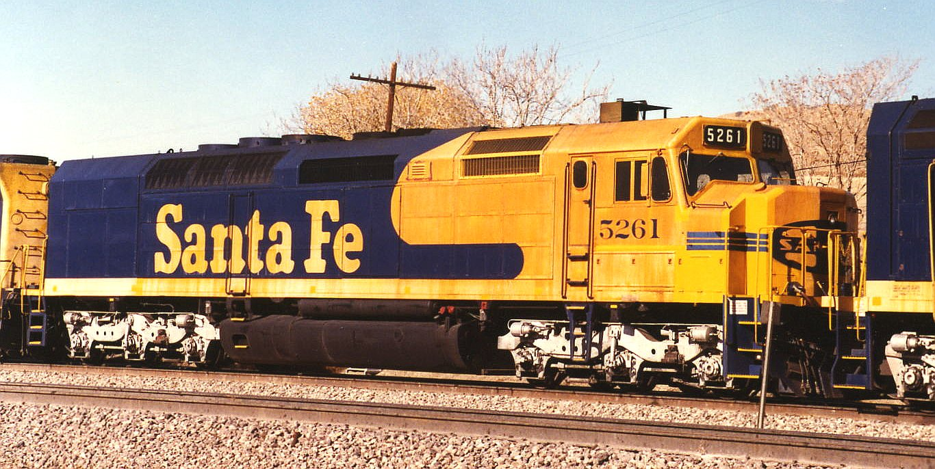 Santa Fe Railroad 5261, an SDF40-2, works in an eastbound train in Caliente, on its way to the Tehachapi Loop in the late 1980s. Photo by Sean Lamb (User:Slambo)